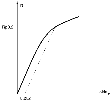 Traction conventionnal curve